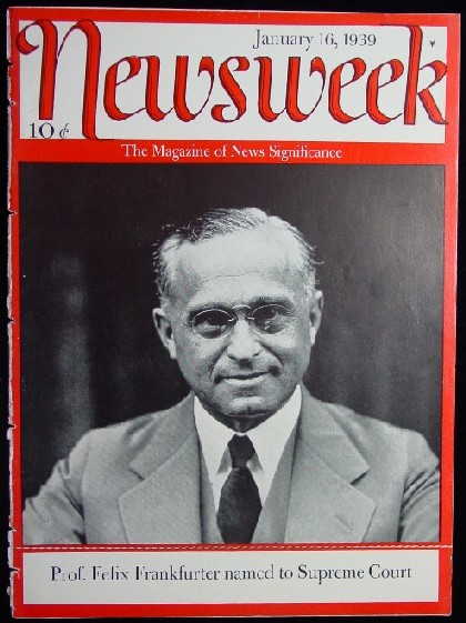 Cover of the January 16, 1939 issue of Newsweek magazine. The issue features Felix Frankfurter on the cover. The issue cost 10 cents.